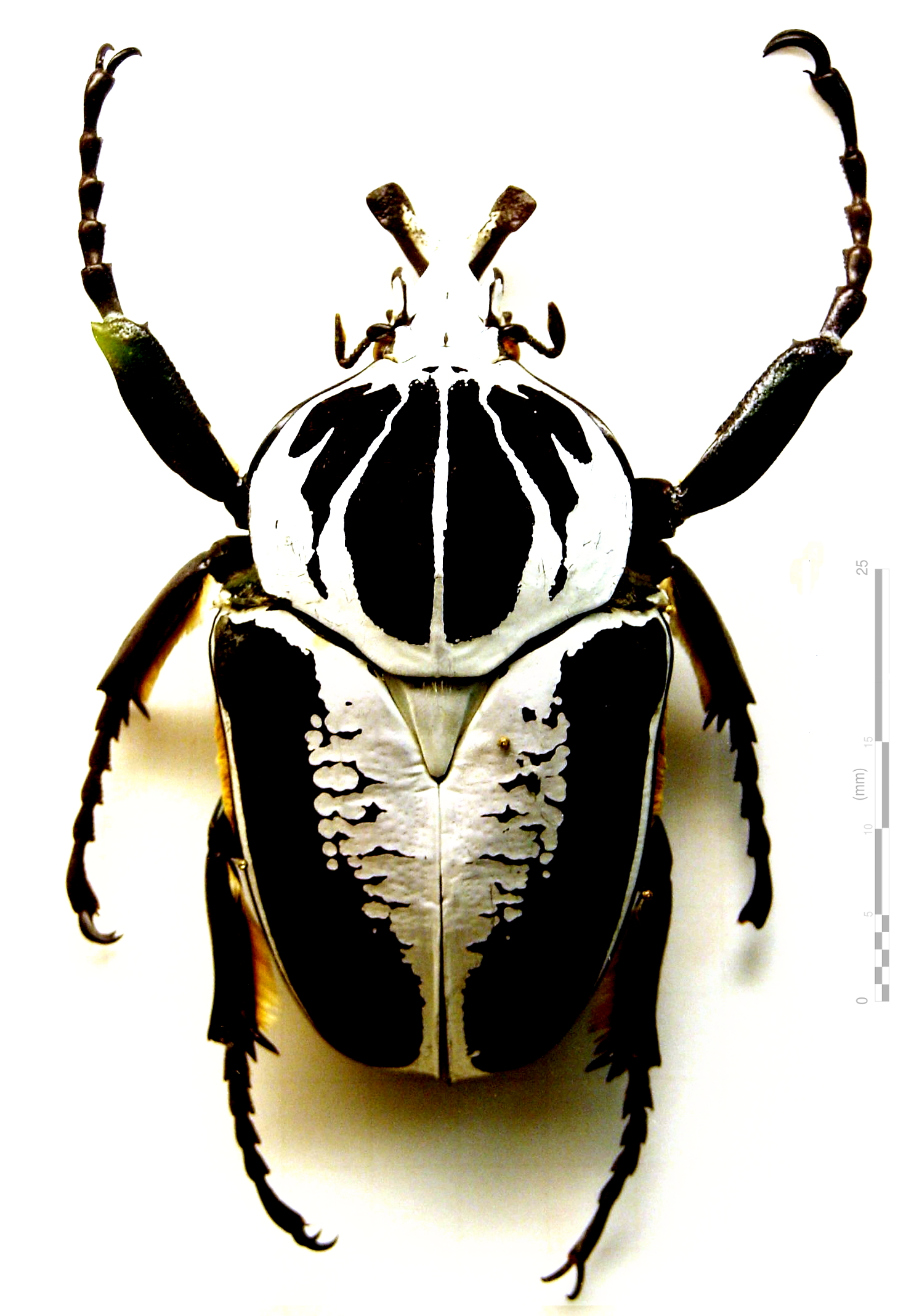 Goliathus regius (Scarabaeidae), mounted specimen from Ghana.